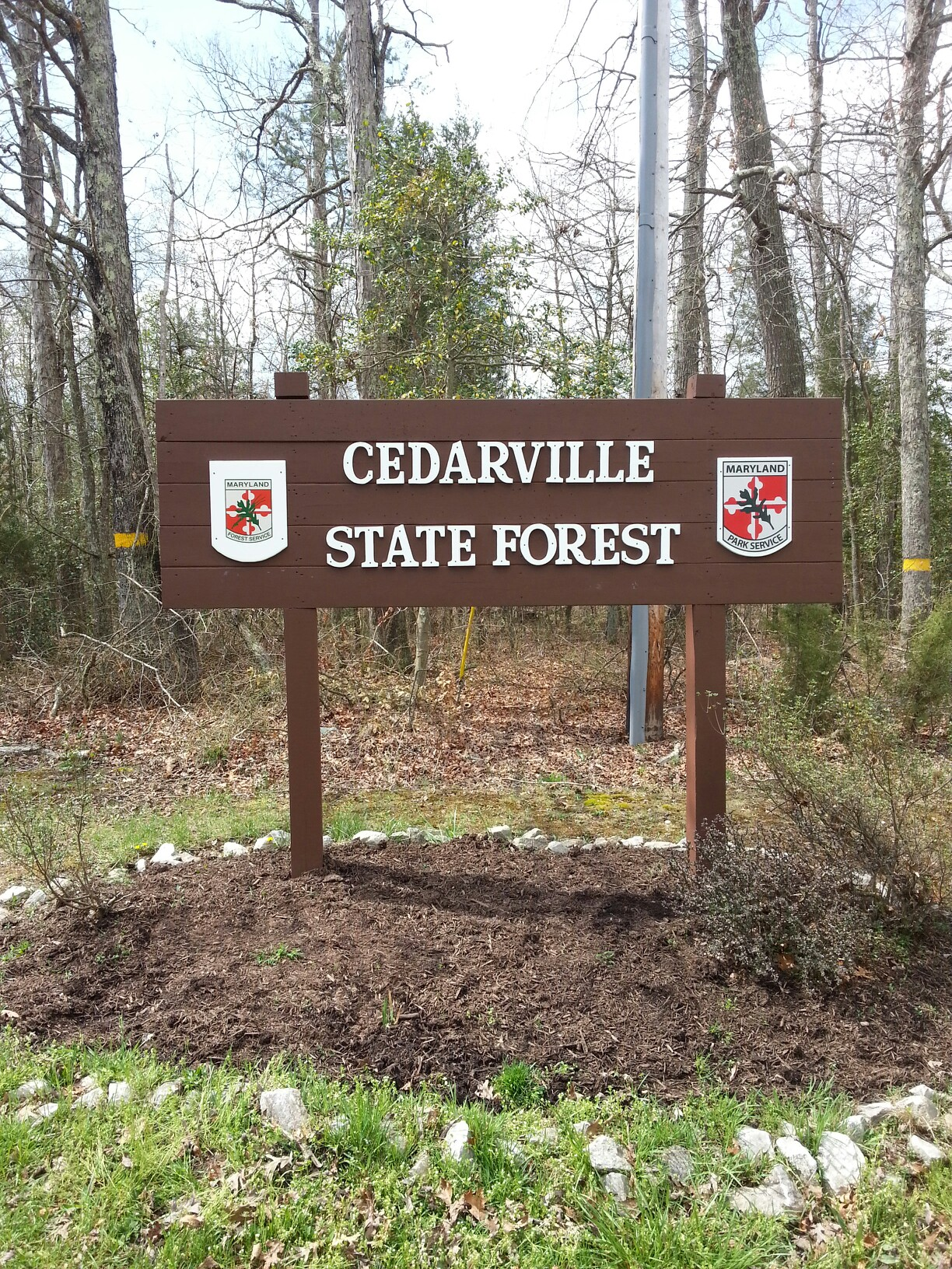 Cedarville entrance sign.